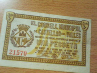 Castellar del Vallès' bills, manufactured during Spanish Civil War